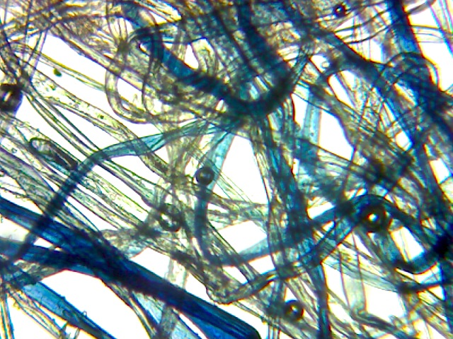 Photo of denim fibers from an old pair of jeans taken under a microscope.